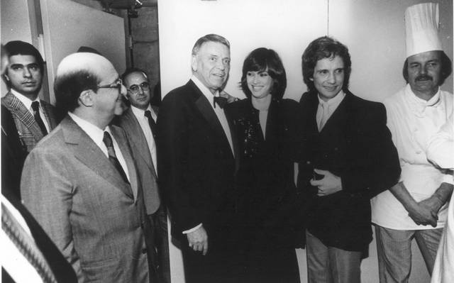 Frank Sinatra, Roberto Carlos and Myrian Rios, Maksoud Plaza, 1981